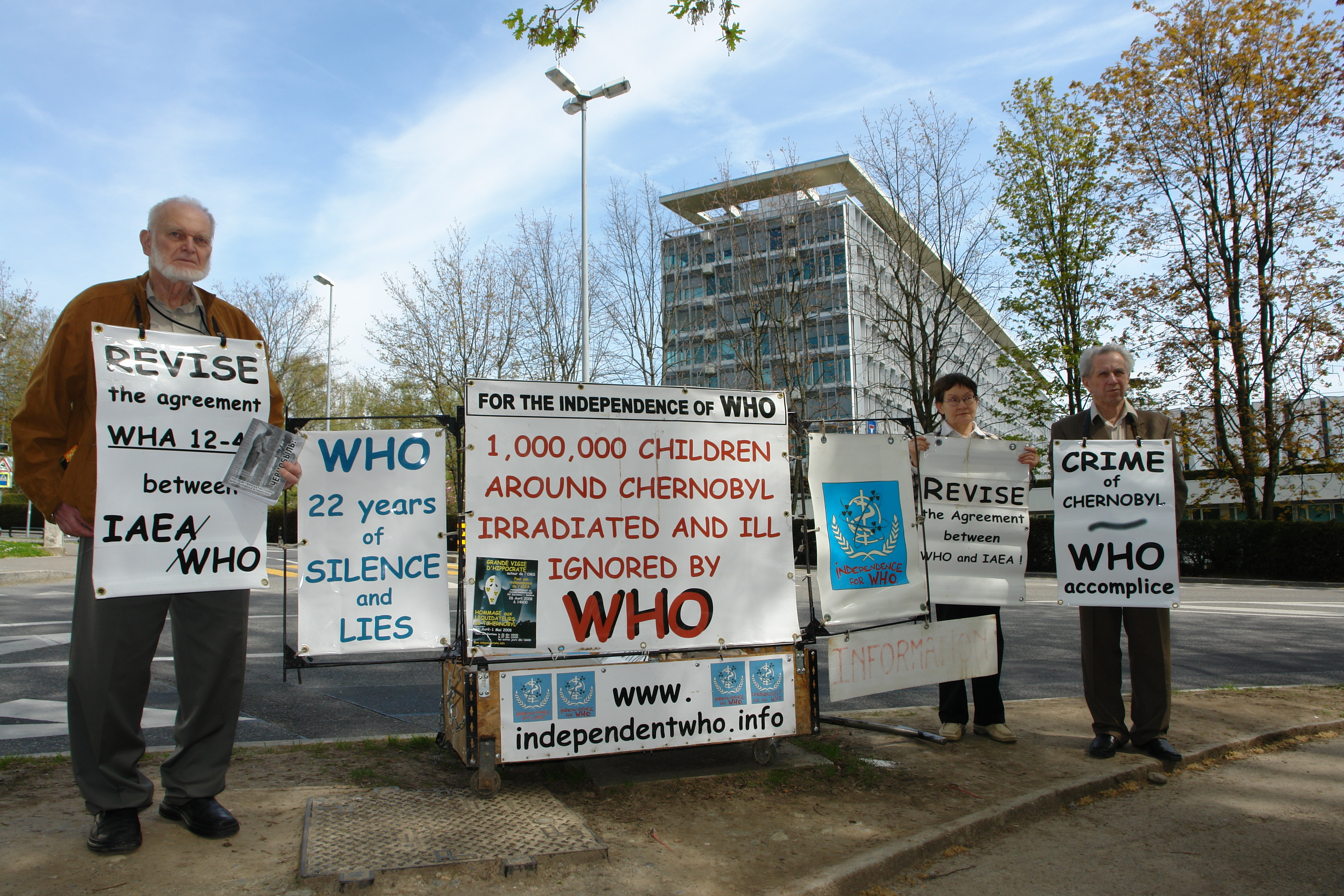 Alexei Yablokov, Rosa Goncharova, Vassili Nesterenko in front of the World Health Organisation, Geneva.